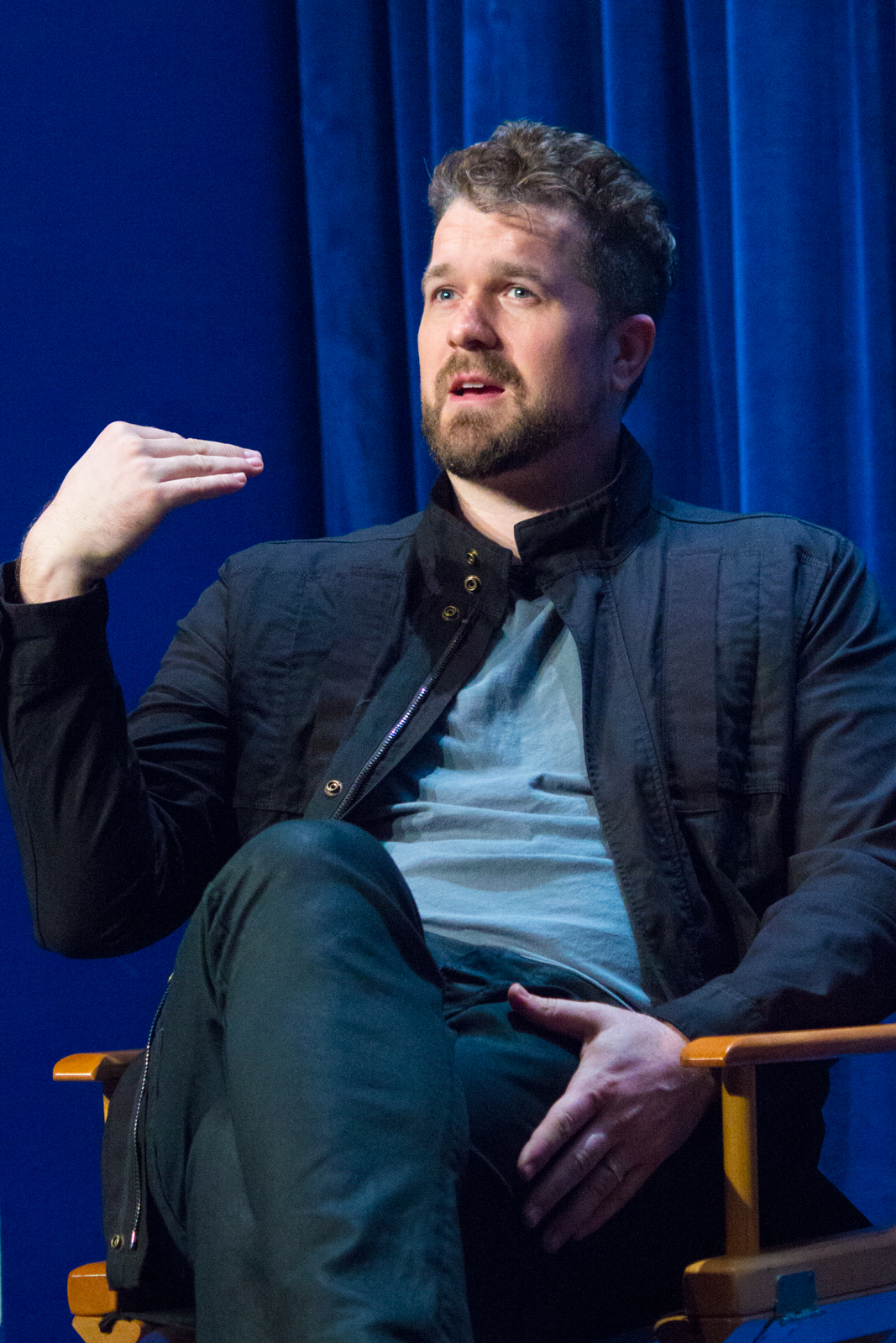 Seth Gordon at the PaleyFest Fall TV Previews 2014 for NBC's "Marry Me"